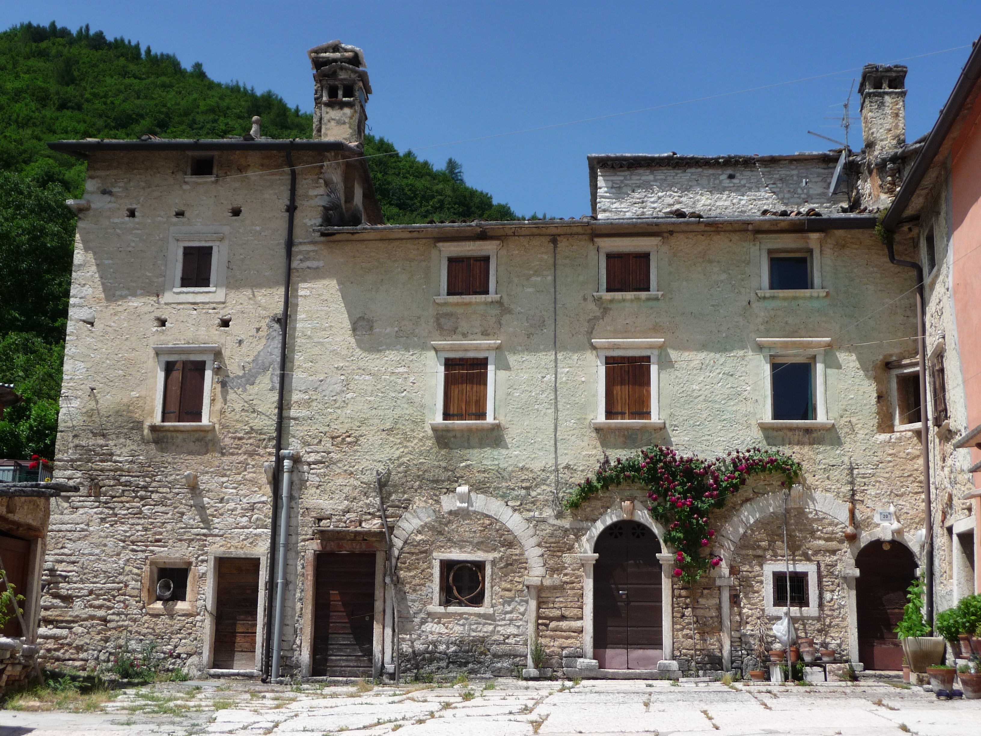 Ancient house in Molina of Fumane, province of Verona, Italy.